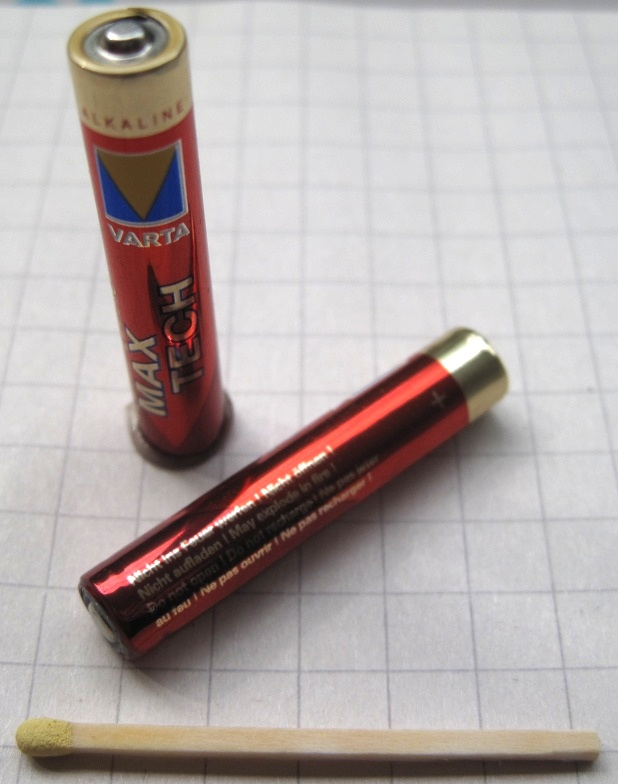 2 LR8D425 cells with matchstick for comparison. Height: 42.5 mm (Expression error: Missing operand for round. in). Diameter: 8.3 mm (Expression error: Missing operand for round. in).